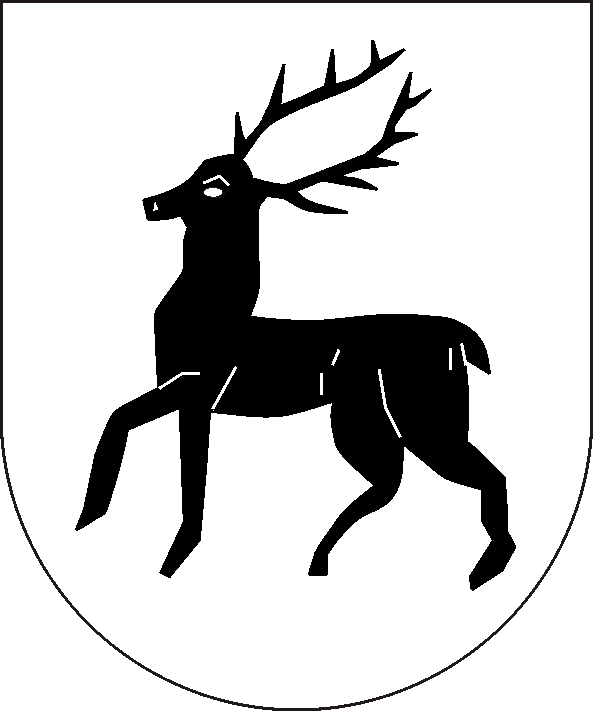 coats of arms of the county of Klettenberg